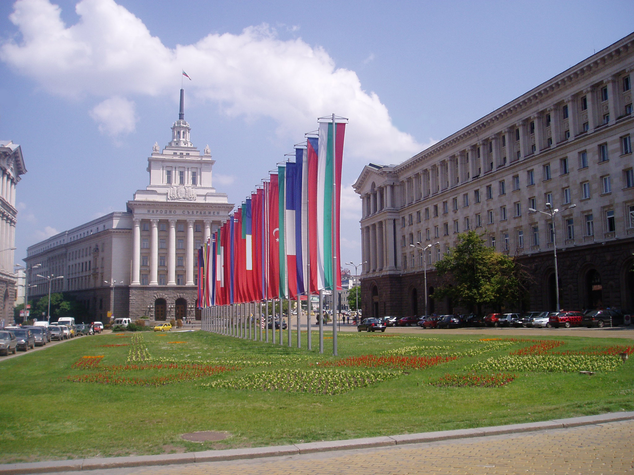 The Largo, Sofia, Bulgaria